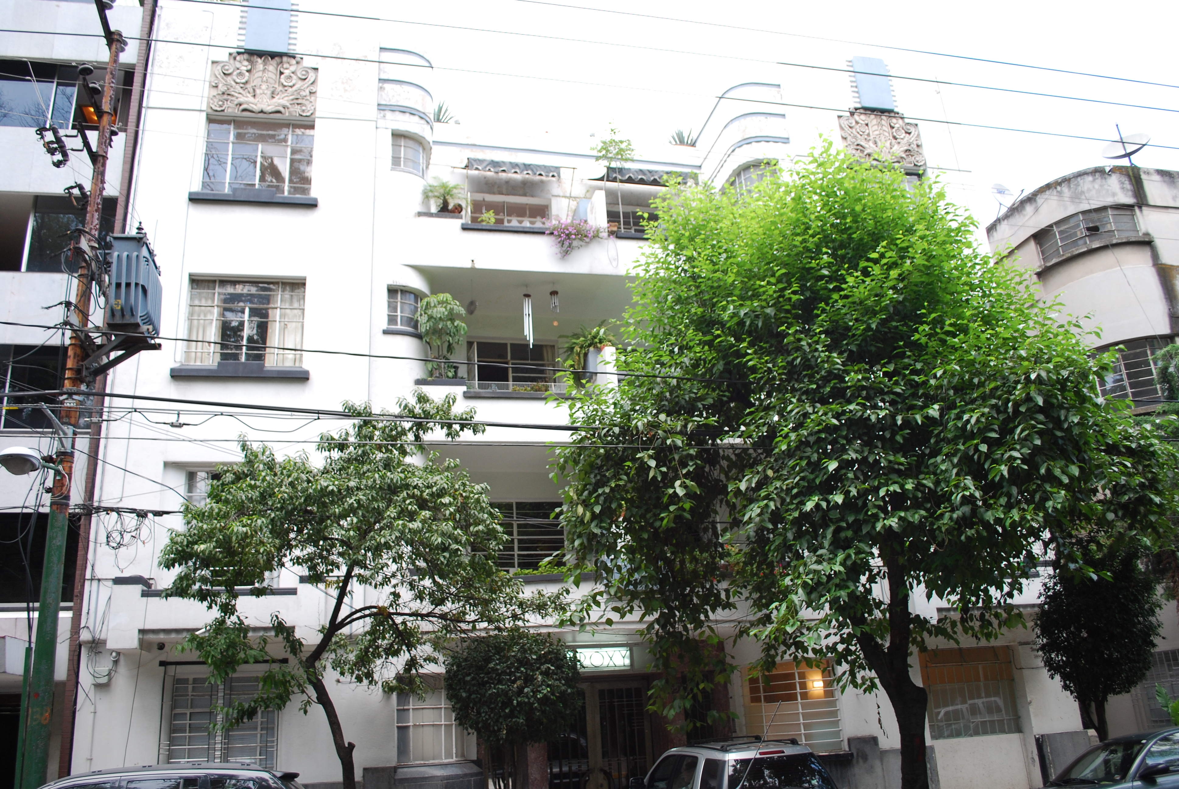 The Roxy — an Art Deco style building in Colonia Hipodromo in Condesa, Mexico City.